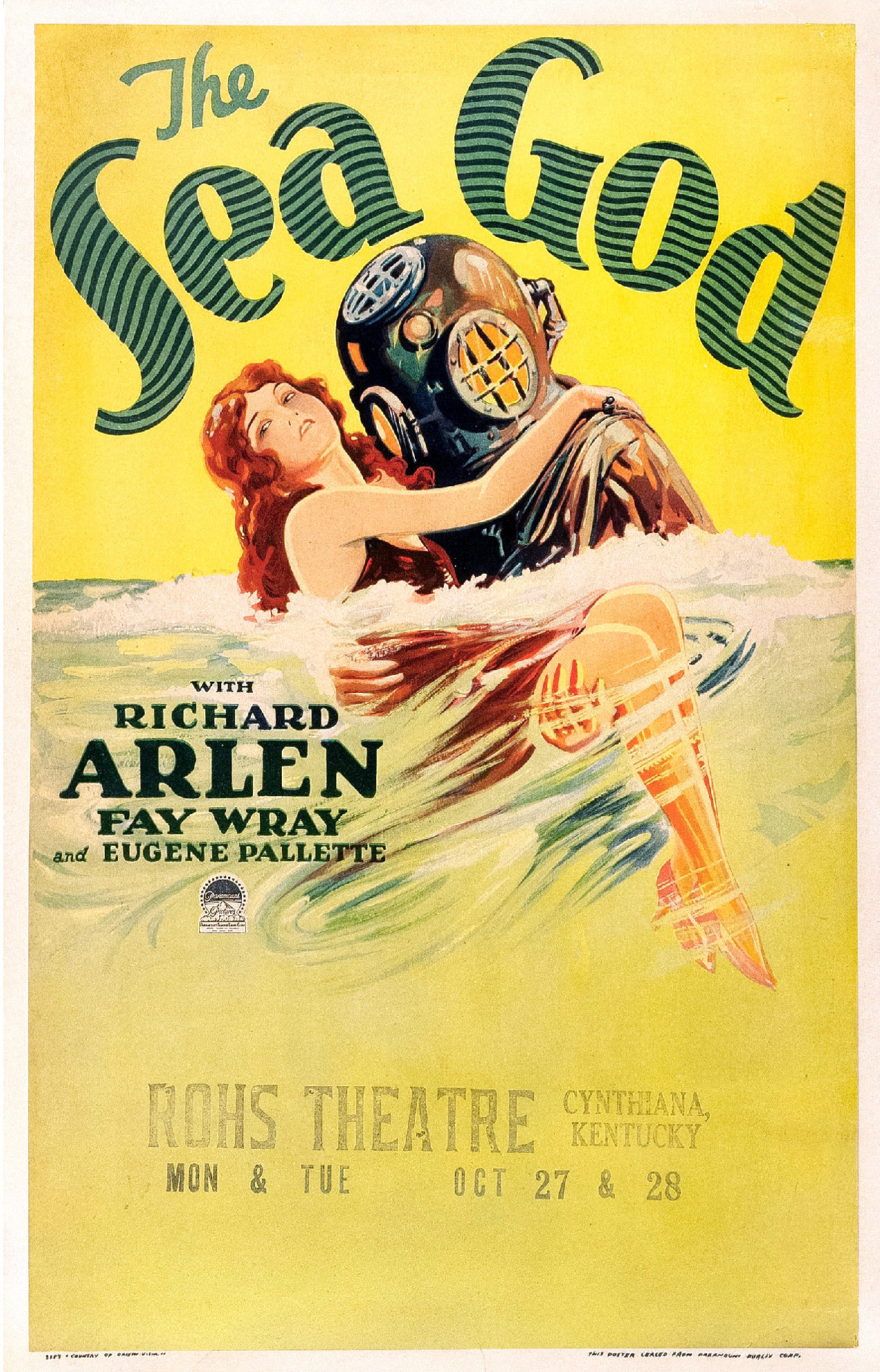 Window poster for the American adventure film The Sea God (1930). There are no copyright marks on the poster. At bottom left is 3057 Country of Origin USA. At bottom right is This poster leased from Paramount Publix Corp.